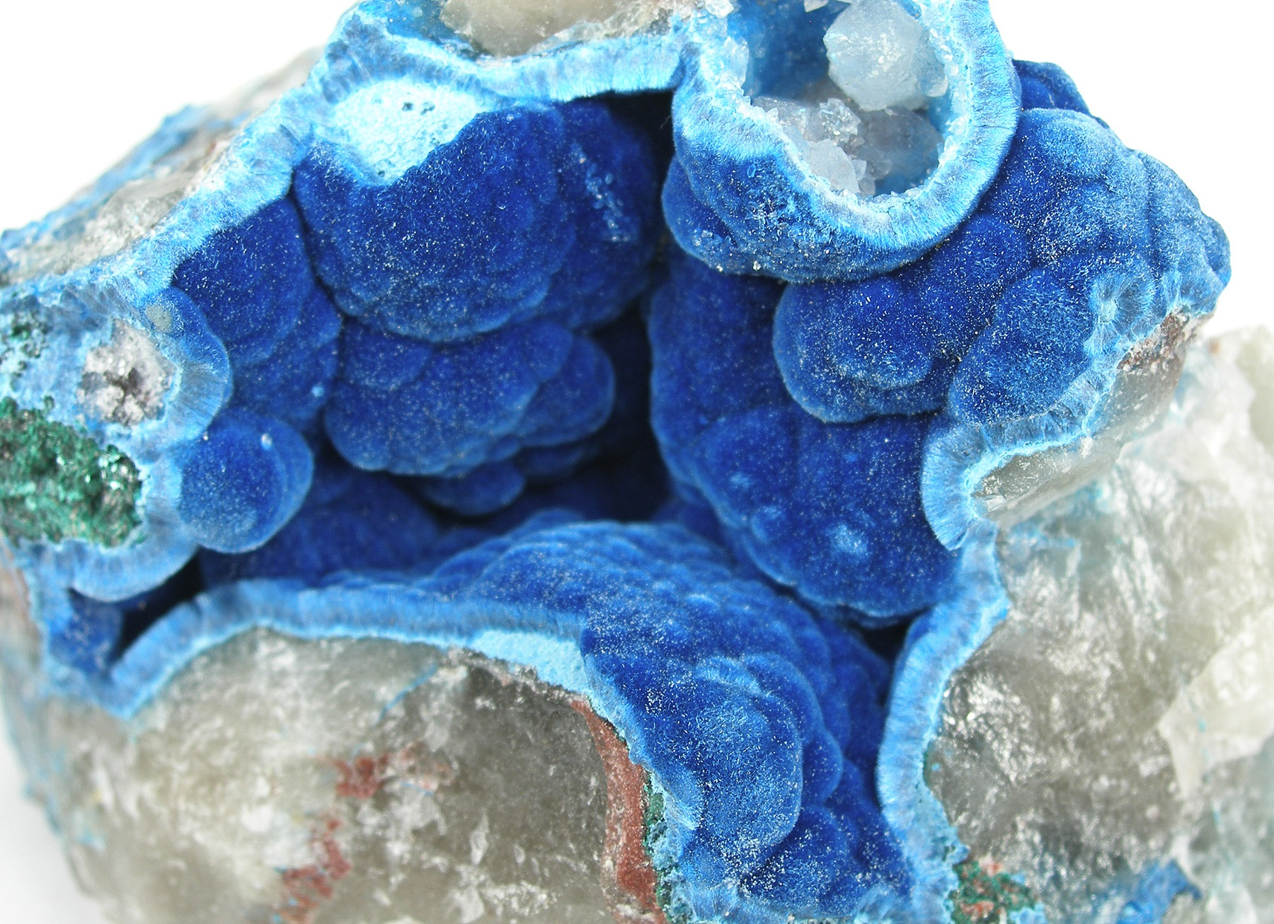 Quartz, Shattuckite Locality: Okenwasi Mine, Kaokoveld Plateau, Kunene Region, Namibia Size: small cabinet, 8.1 x 6.0 x 5.0 cm Shattuckite pocket in quartz Much shattuckite has come out, and often you can get beautiful drusy carpets of the crystals, which look like blue velvet, on thin plates. Sometimes you get nice pockets, but not always of this top quality. This is TOP quality for condition, color intensity, and a rolling 3-dimensional surface inside. It screams out in color, and is one of the best such pockets I have seen in the few years of trickling production out of here. There are really few colors in nature so intense. This vug is nearly 2 inches across, and the crystals within are pristine and protected. Again, if you think you have seen TOP color for this material, i can only say that this piece is another 10% beyond, in color, anything I have seen for sale on a general basis.